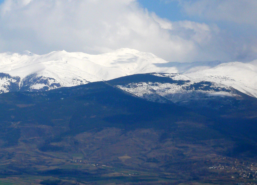 The peak Puigmal as seen from the access road to the ski resort of Guils Fontanera. Picture taken on 4 April, 2007. El Puigmal vist des de la carretera d'accés a Guils Fontanera. Foto feta el 7 d'abril del 2007